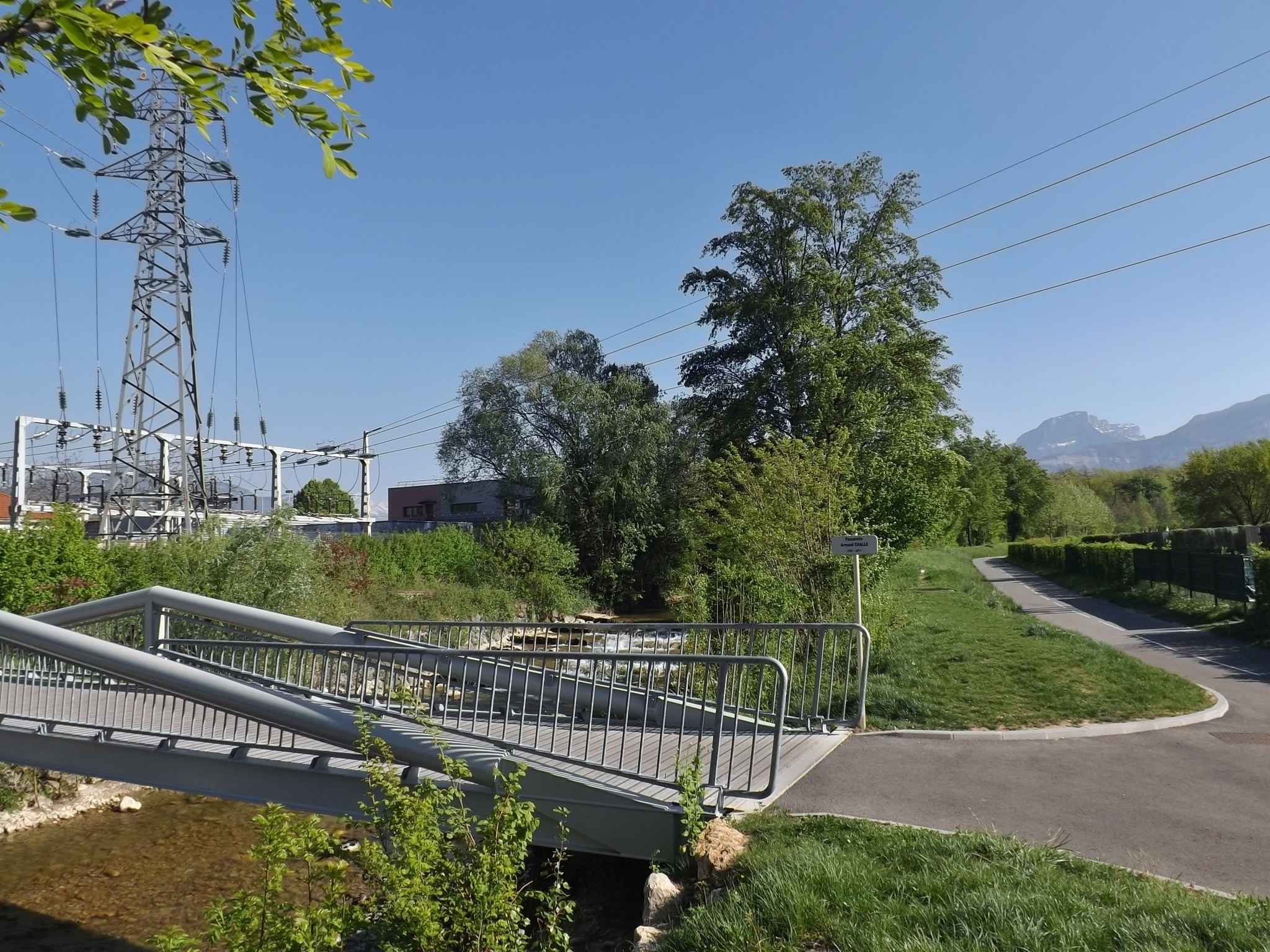 Sight of the Avenue verte nord foot and cycle path (on the right) with an intersection to the Grand Verger area passing over the river Hyères on the Armand Challe bridge, in Chambéry, Savoie, France.